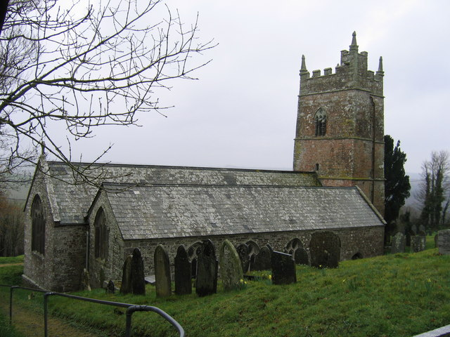 St Anne's Church, Whitstone. Taken from the NE entrance to the churchyard. An ancient wellhouse is in the SE corner of the churchyard. An old stone face stares out from the rear of the well.